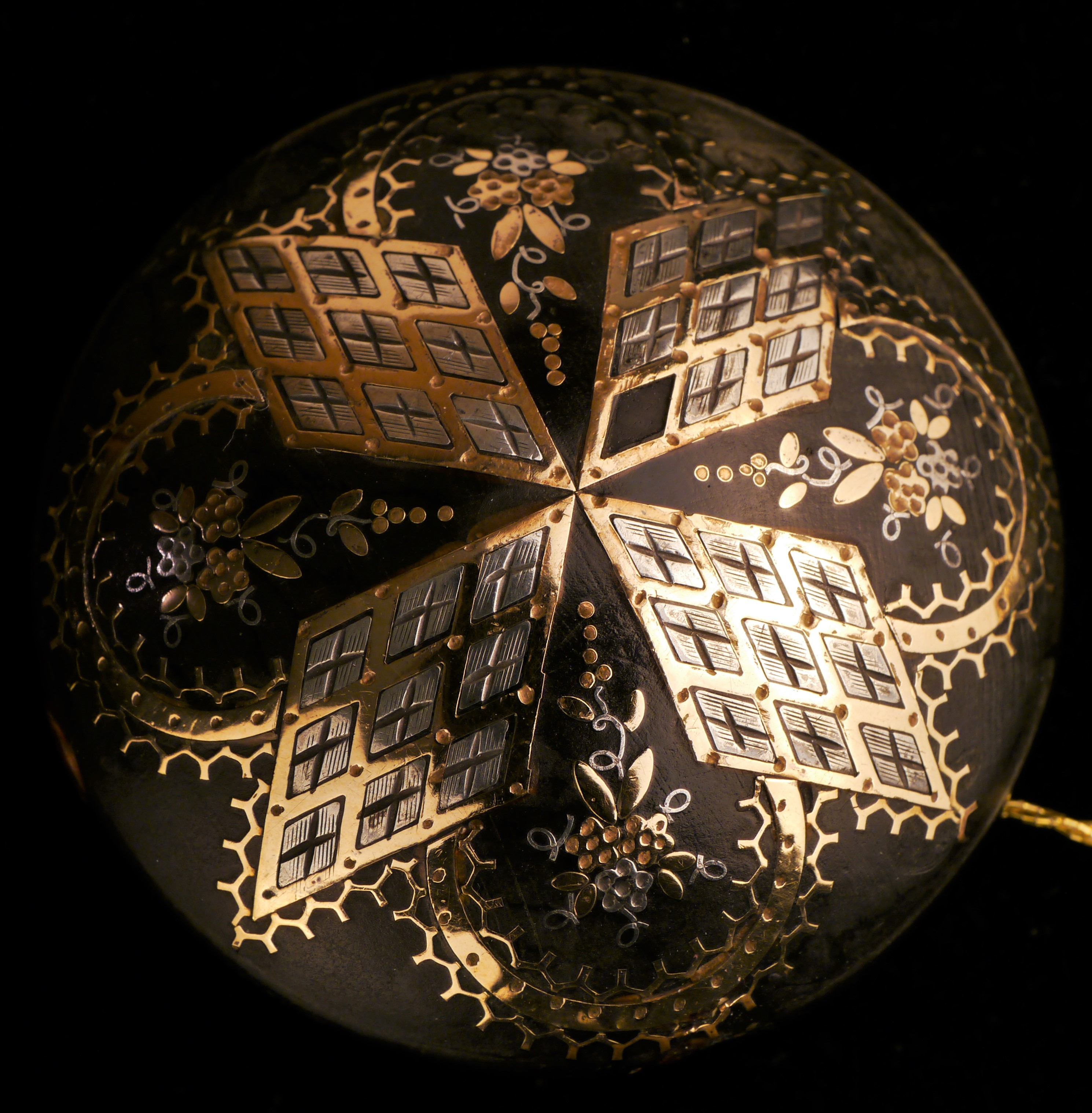 Victorian tortoiseshell piqué brooch- inlayed with gold and silver using a technique called piqué work